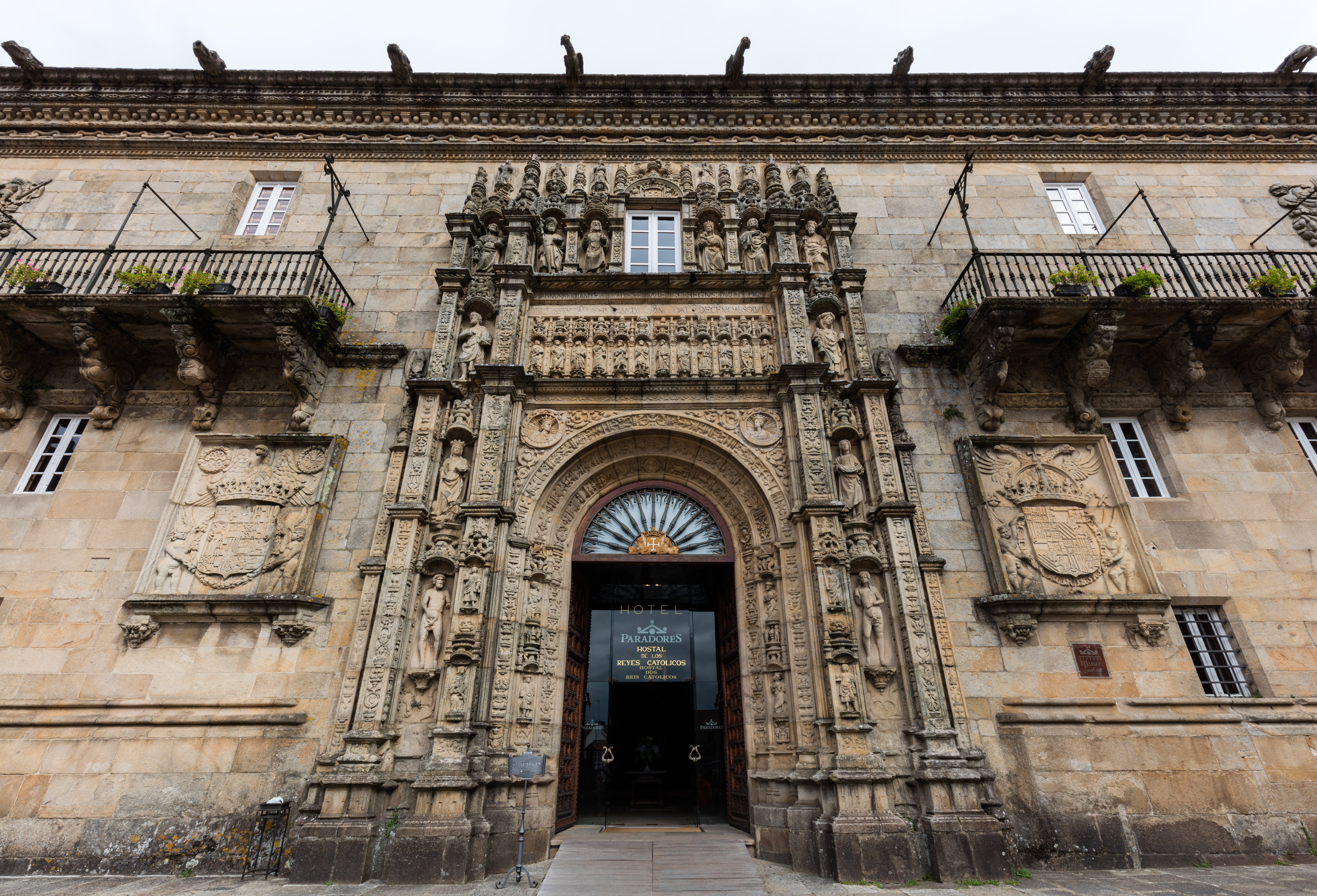 Hostal of the Reyes Católicos, Santiago de Compostela, Spain